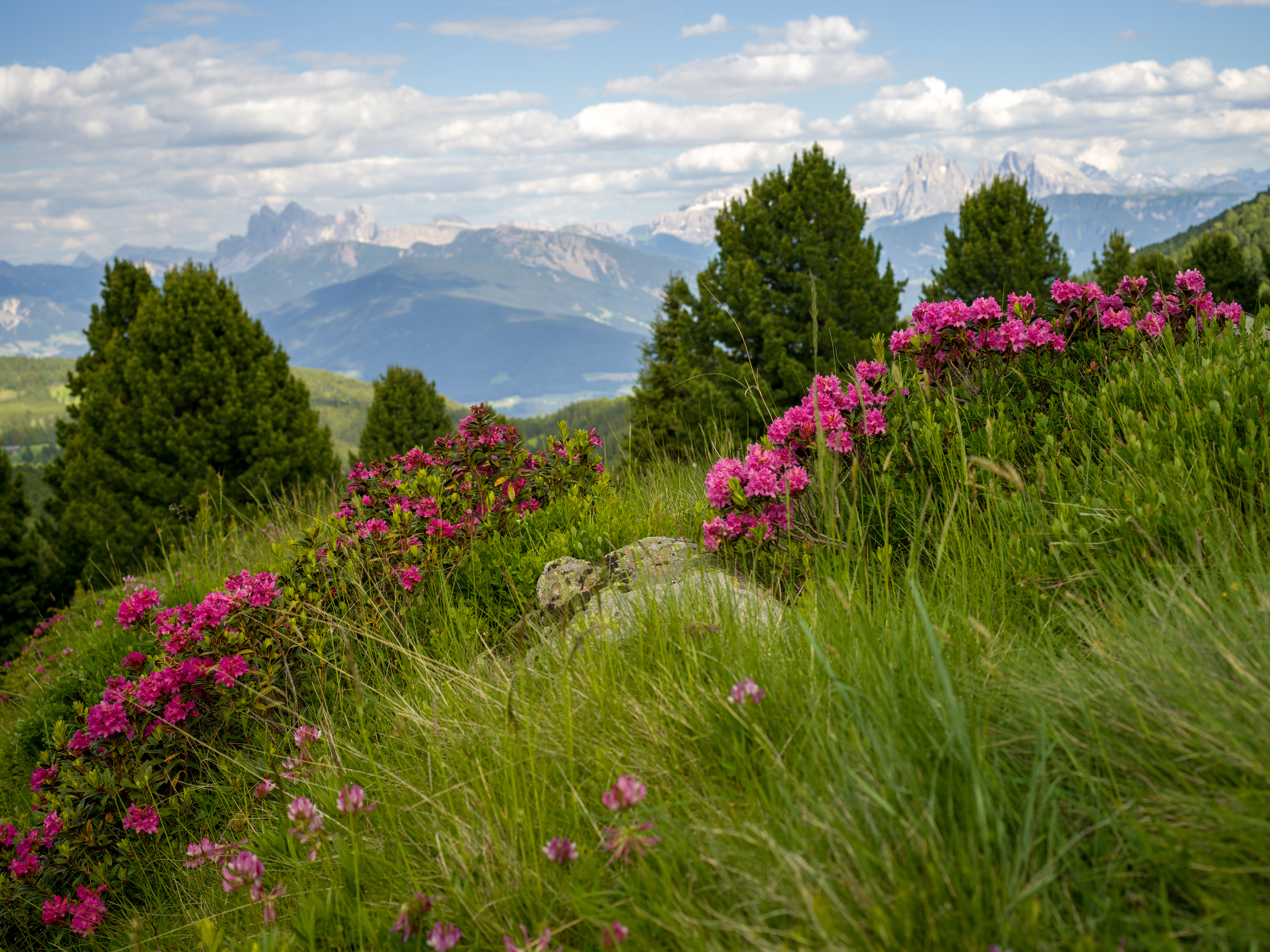 Rhododendron ferrugineum on the Villanderer Alm in Villanders South Tyrol.